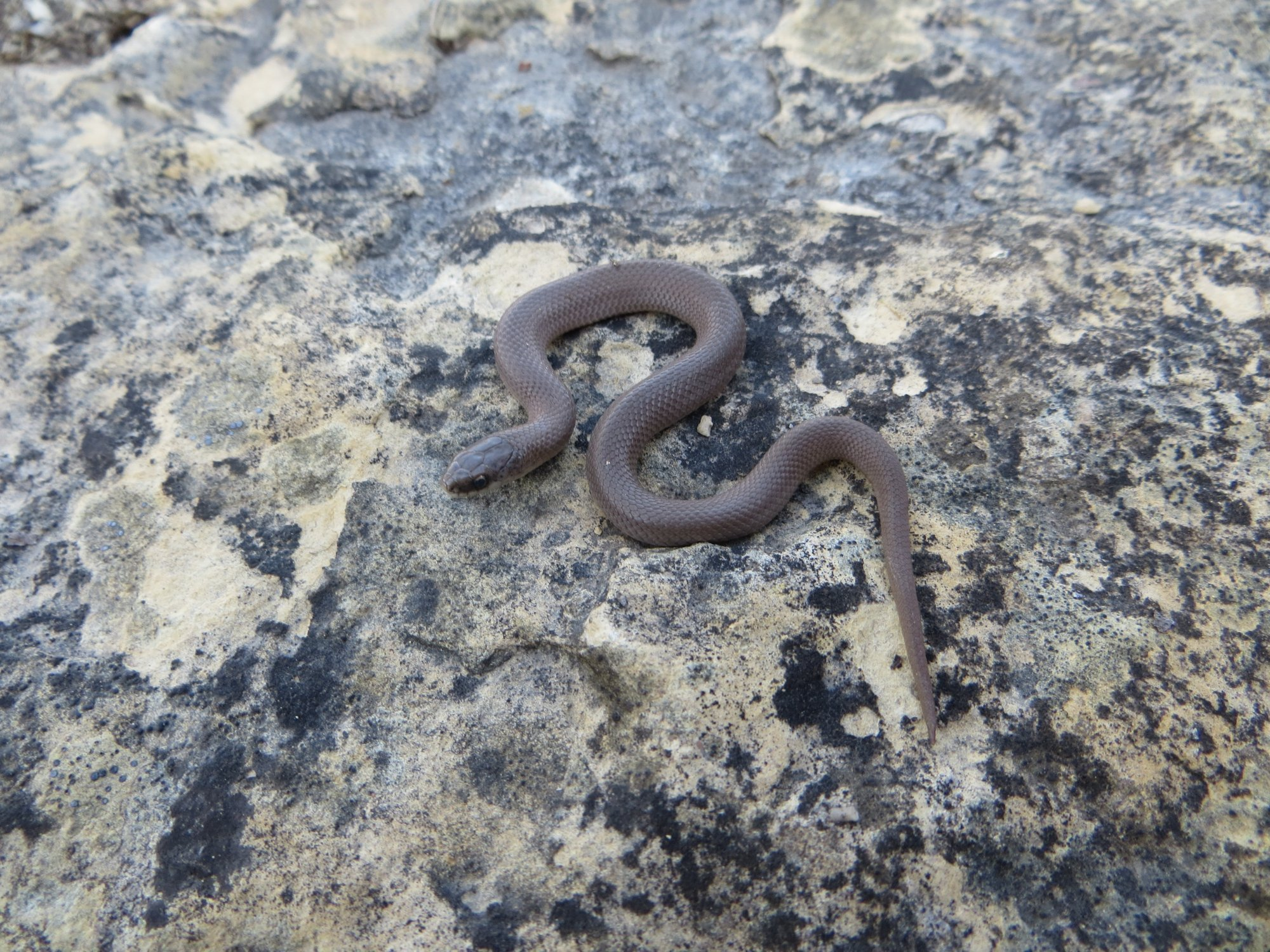 A Smooth Earth Snake from Madison County, Iowa